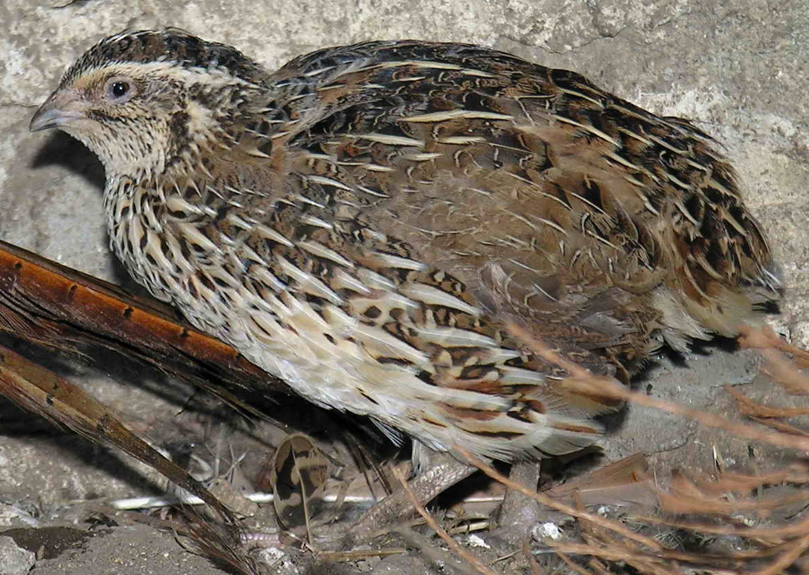 Coturnix coturnix. Teaño - Cuntis - Galicia - Spain